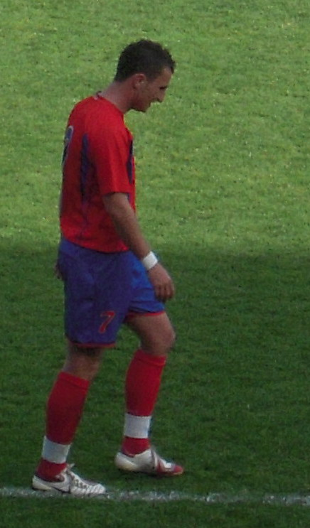 Bojan Puzigaća